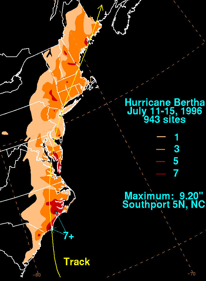 Storm total rainfall map of Hurricane Bertha during July 1996.